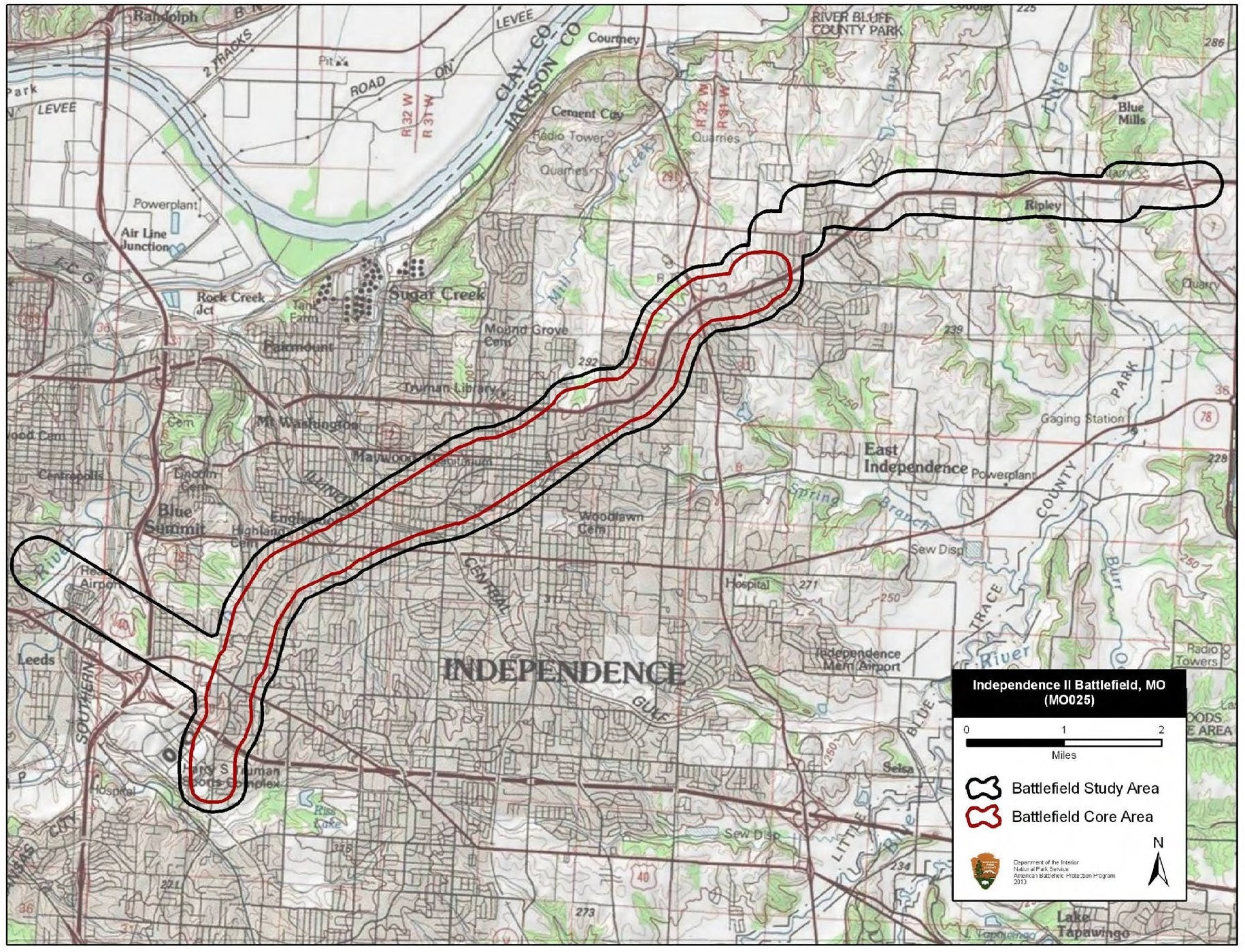 Map of battlefield core and study areas. The 1993 Study Area and Core Area did not accurately reflect the full extent of the battle landscape. The ABPP expanded the Study Area to include all of the locations of fighting, and realigned the boundaries to follow the historic road network more closely. The ABPP added the Union approach route to Independence from the east and the route used by withdrawing Confederates to the southwest of town. The ABPP expanded the Core Area significantly to include the initial point of contact between Union and Confederate forces; the area of subsequent fighting through the town of Independence; the Confederate lines of battle in town; and areas of sustained engagement along the Confederate route of withdrawal the southwest. The portions of the Study Area and Core Area that represent this southwestern movement end at a mileage point described in action reports found in The War of the Rebellion: a Compilation of the Official Records of the Union and Confederate Armies.